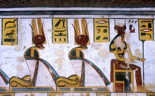 Star pattern; Nepit, Renenutet and Hu as cobras.